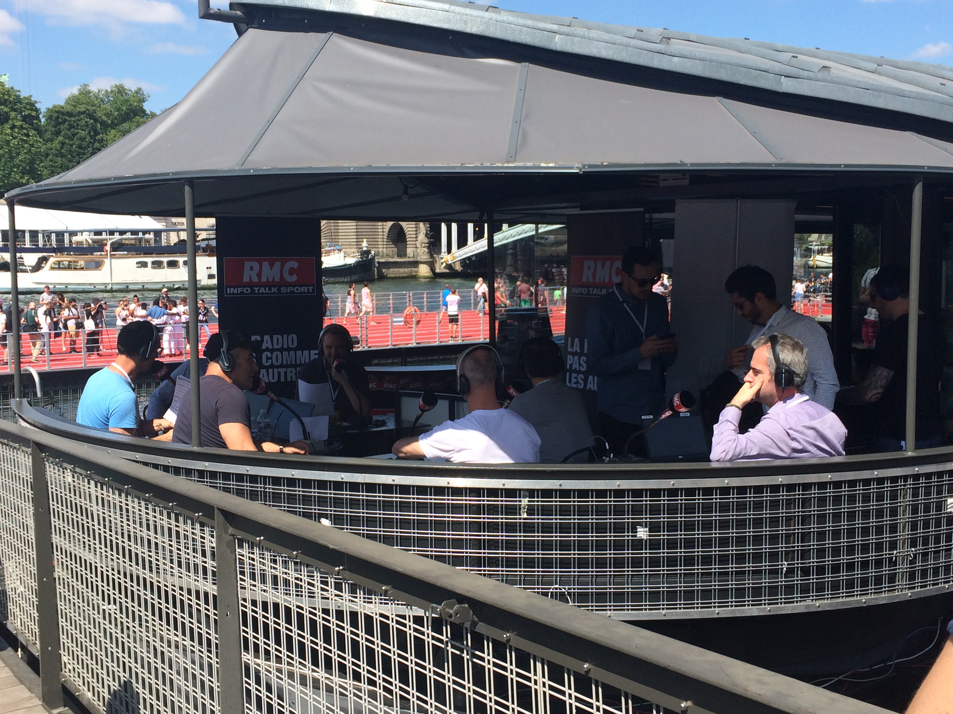 Radio show "Moscato Show" during Olympic Days in Paris.